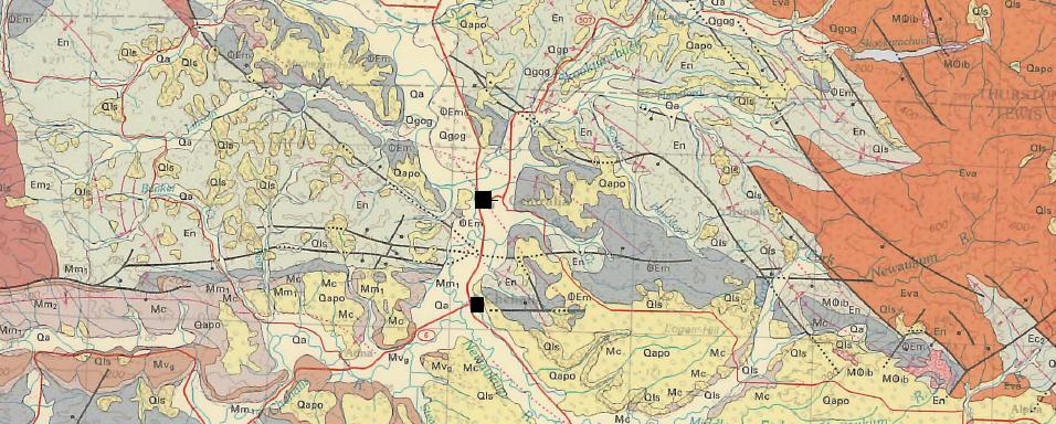 An excerpt from Washington DGER Geological Map 34 (reduced and modified) showing the principal known faults in the Centralia—Chehalis (Washington) area, including the Doty, Salzer Creek, Scammon Creek, Kopiah, Newaukum, Coal Creek, and two unamed faults; see USGS Bulletin 1053 for details. The Doty—Salzer Creek fault runs between the towns of Centralia and Chehalis, indicated by the black squares.